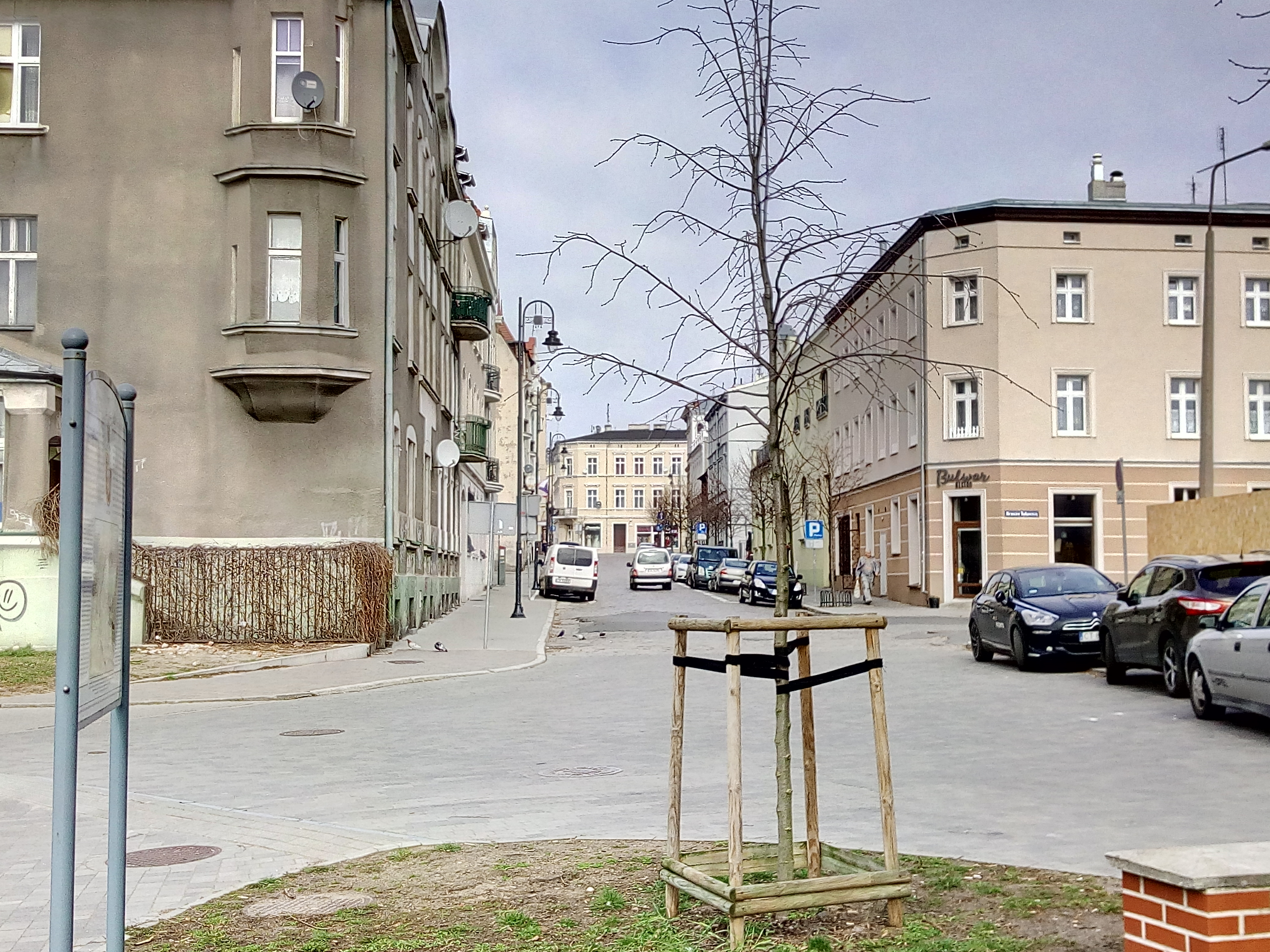 View to the north